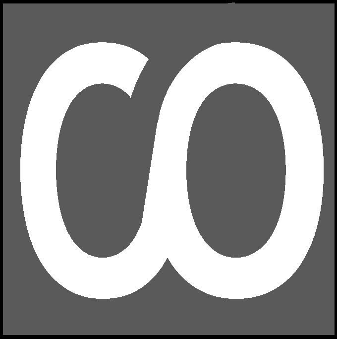 John Mayer userbox symbol